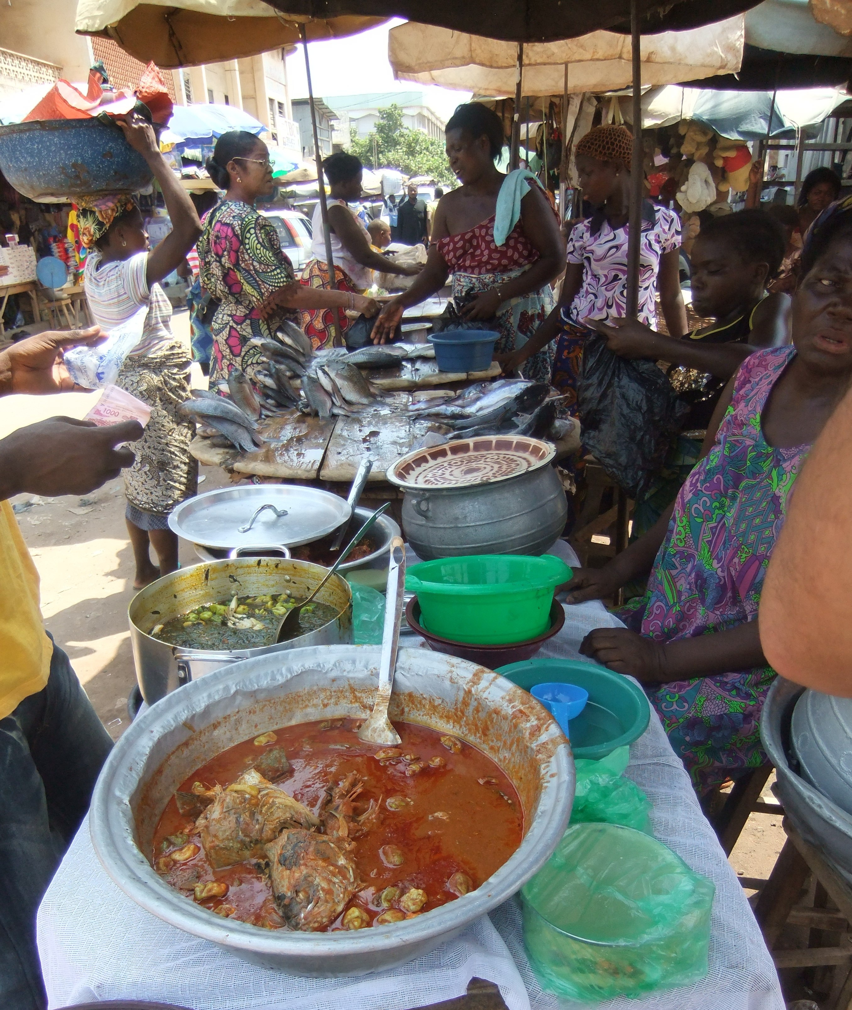 Lome, Togo This is an image of "African people at work" from Togo